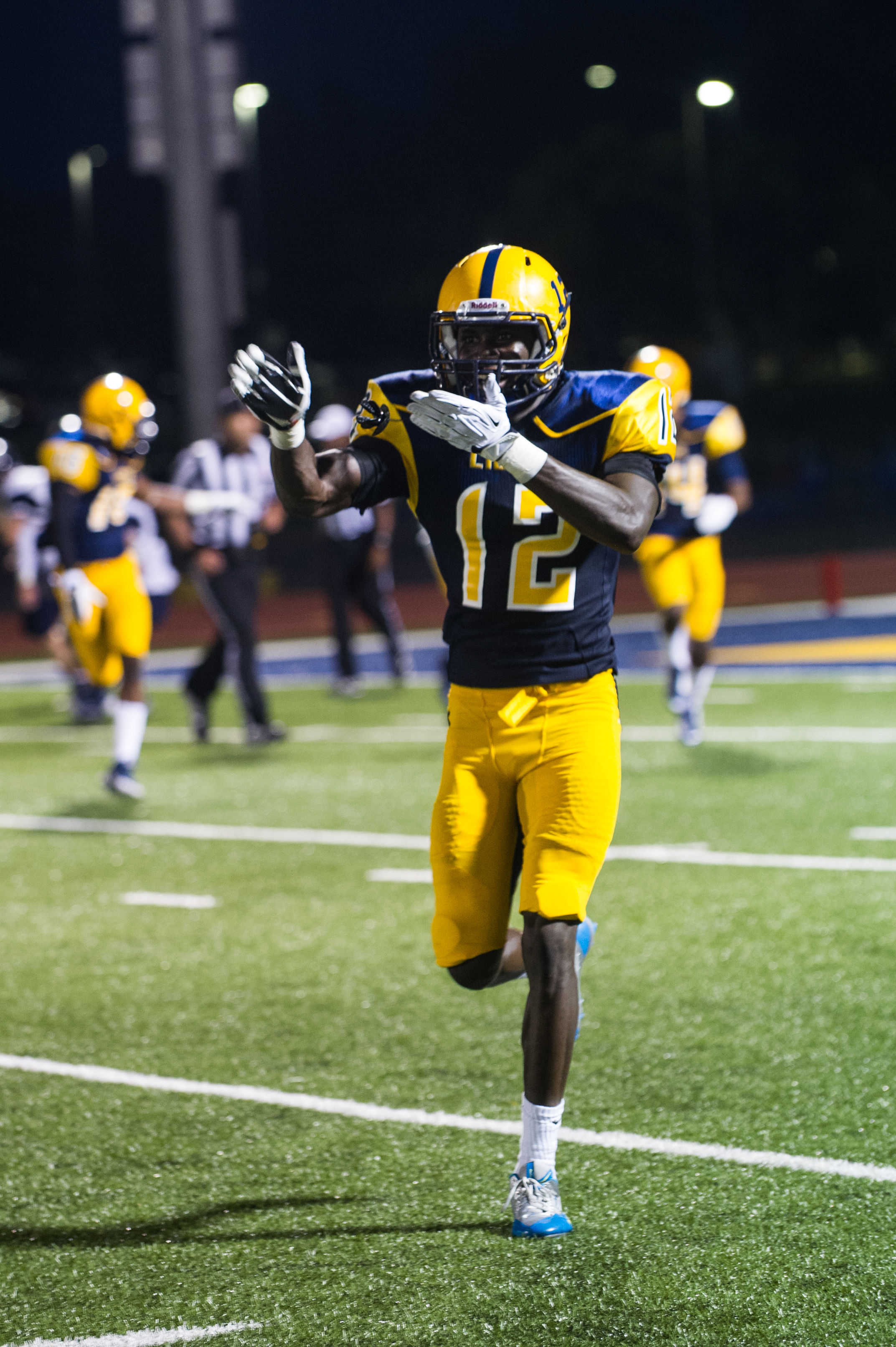 14401-Football vs ETB-8171.jpg Scenes from the East Texas Baptist Tigers vs. Texas A&M–Commerce Lions football game on September 4, 2014.